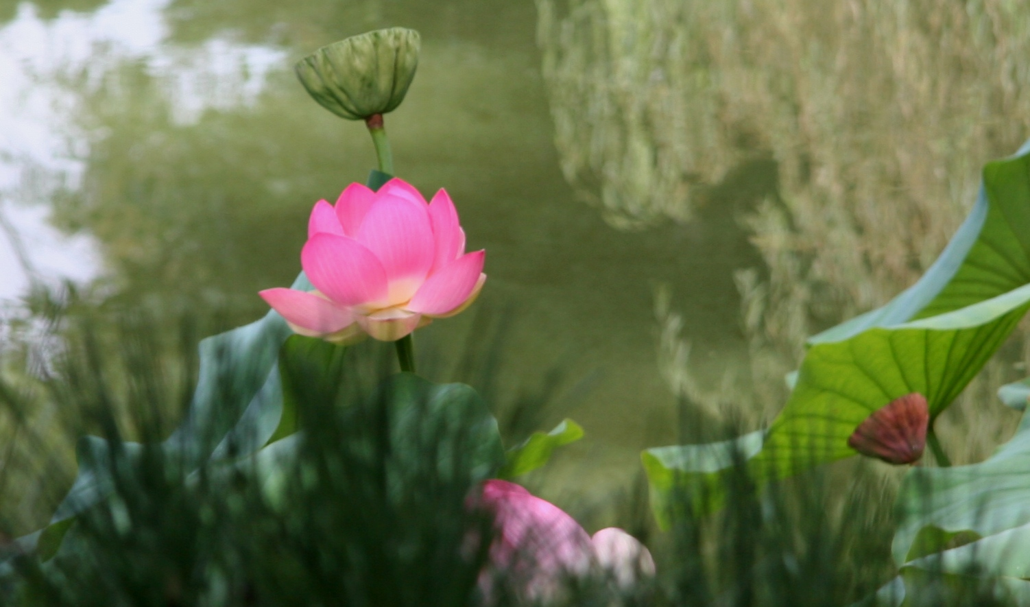 Nelumbo nucifera — Lotus, Indian lotus, Sacred lotus; with flower. In the 'Japanese Garden' of Lotusland — in Montecito, near Santa Barbara in southern California. Credits Photographed at Lotusland Santa Barbara, California; 15 Sep 2006. Northwest Horticulture Society Santa Barbara Tour : Japanese Garden i091506 077